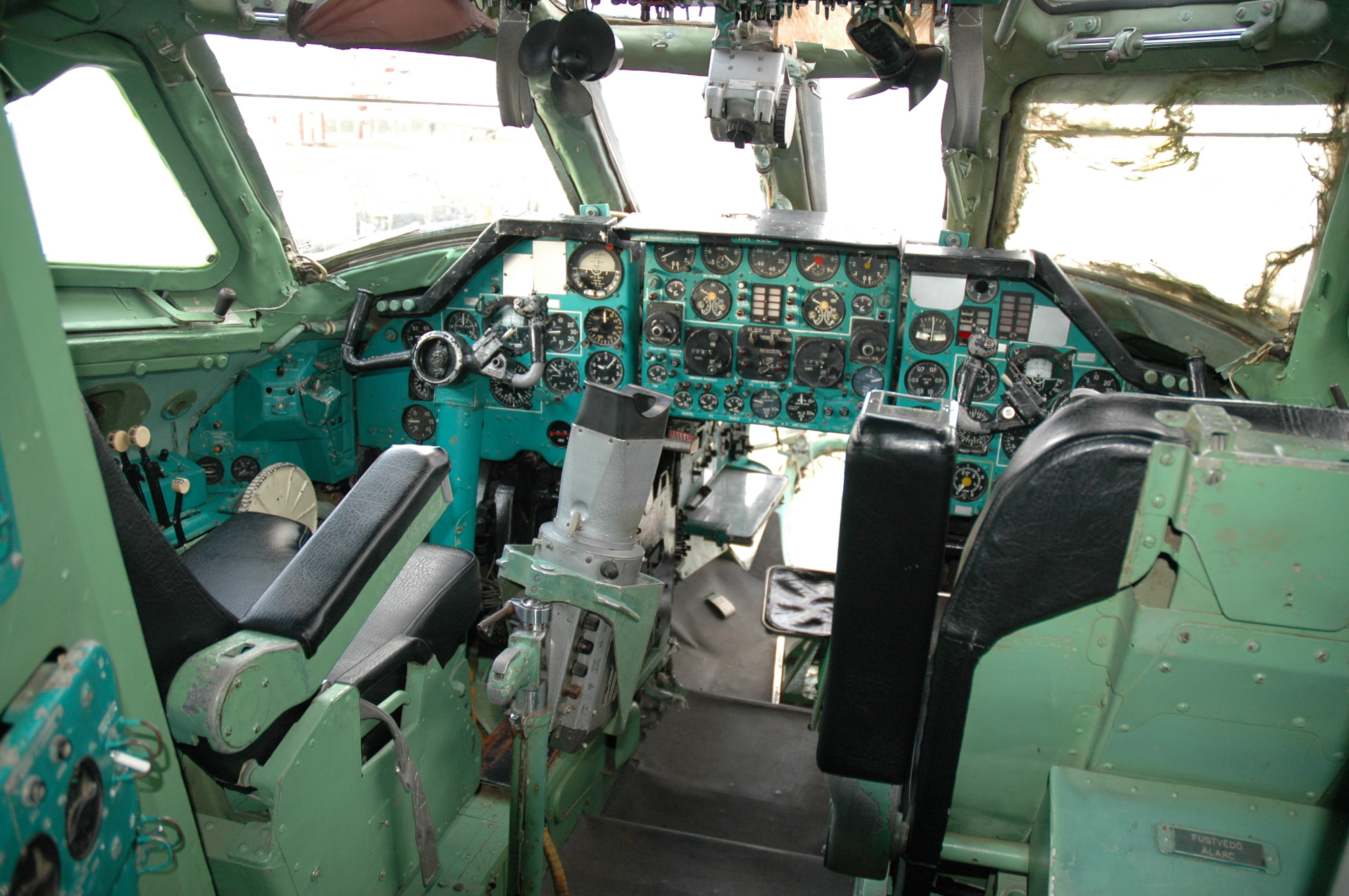 View of Tupolev Tu-134A cockpit (reg. HA-LBE)